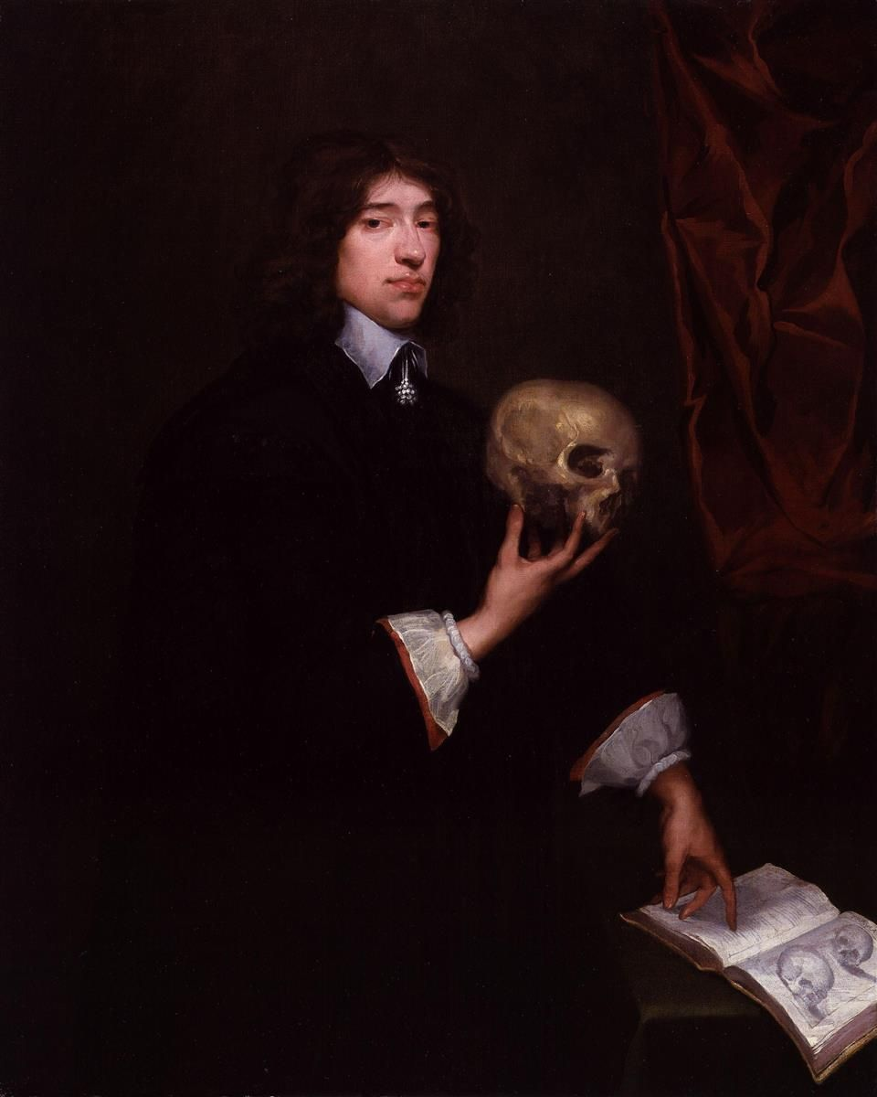 Sir William Petty (1623-1687) poses in this painting. He holds a skull in his right hand while his left hand rests on plate 3 of Adriaan van den Spiegel's De Humani Corporis Fabrica [On the Fabric of the Human Body] (1627).